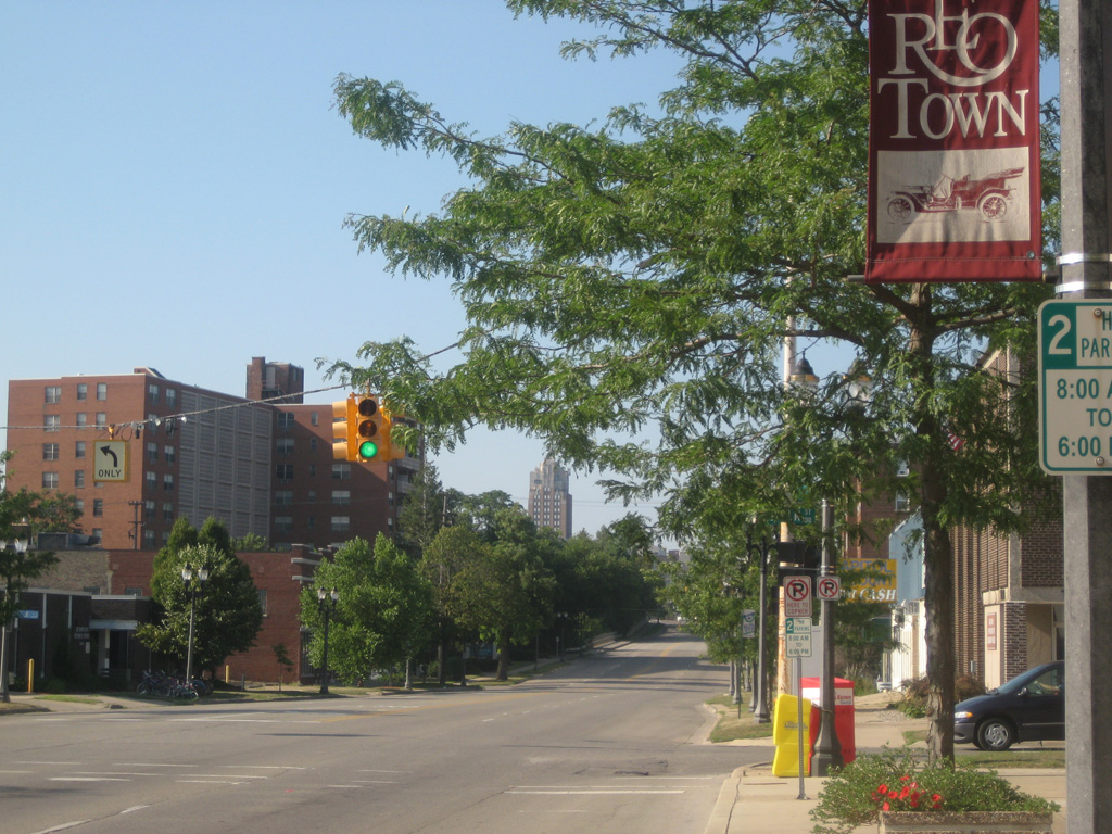 REO Town district in Lansing, Michigan, located south of downtown. View along Washington Avenue facing north.